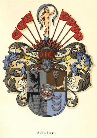 Coat of arms of the Adeler family